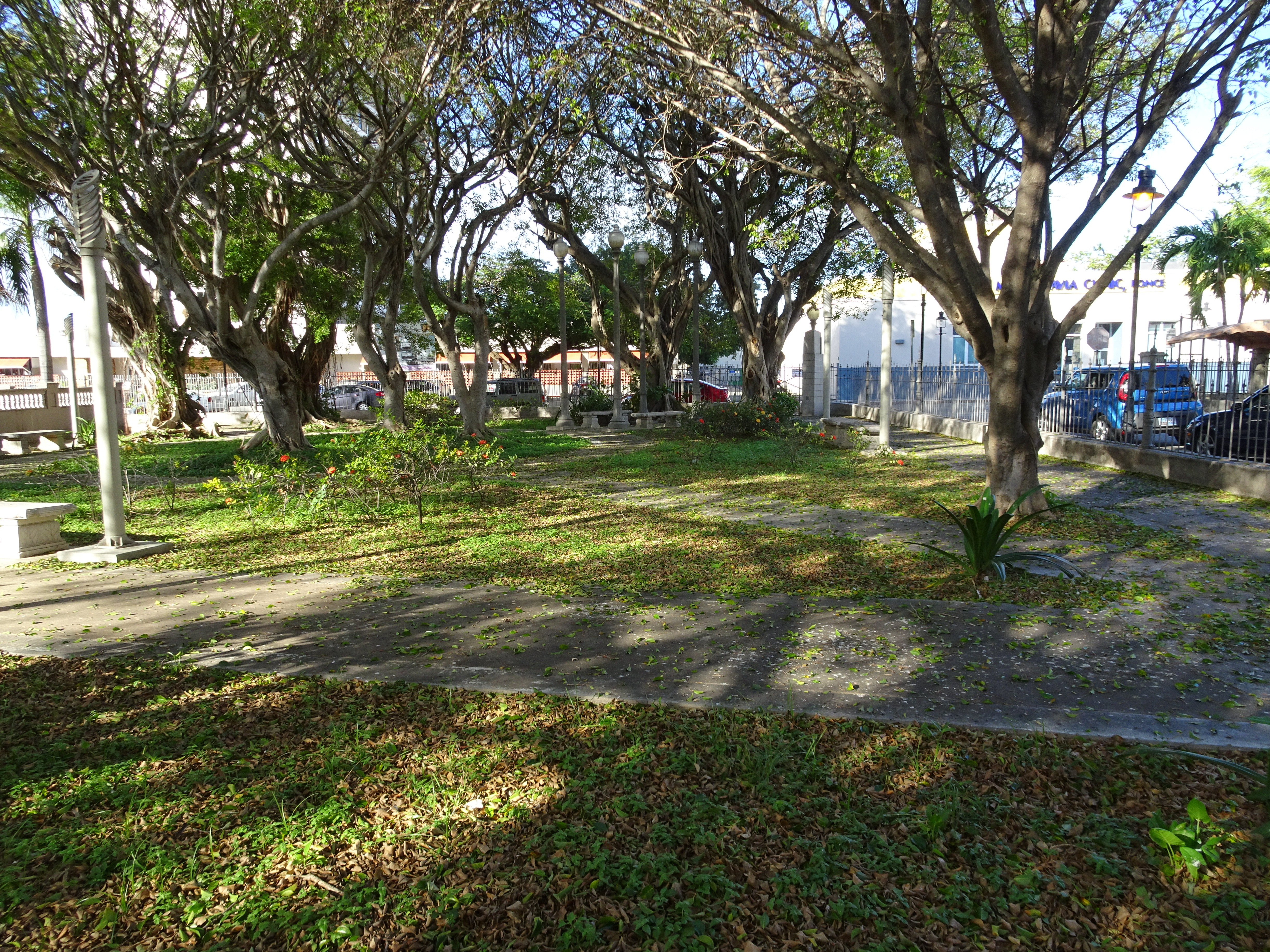 Parque de la Abolicion, Ponce, PR, mirando hacia el oeste (DSC00369)